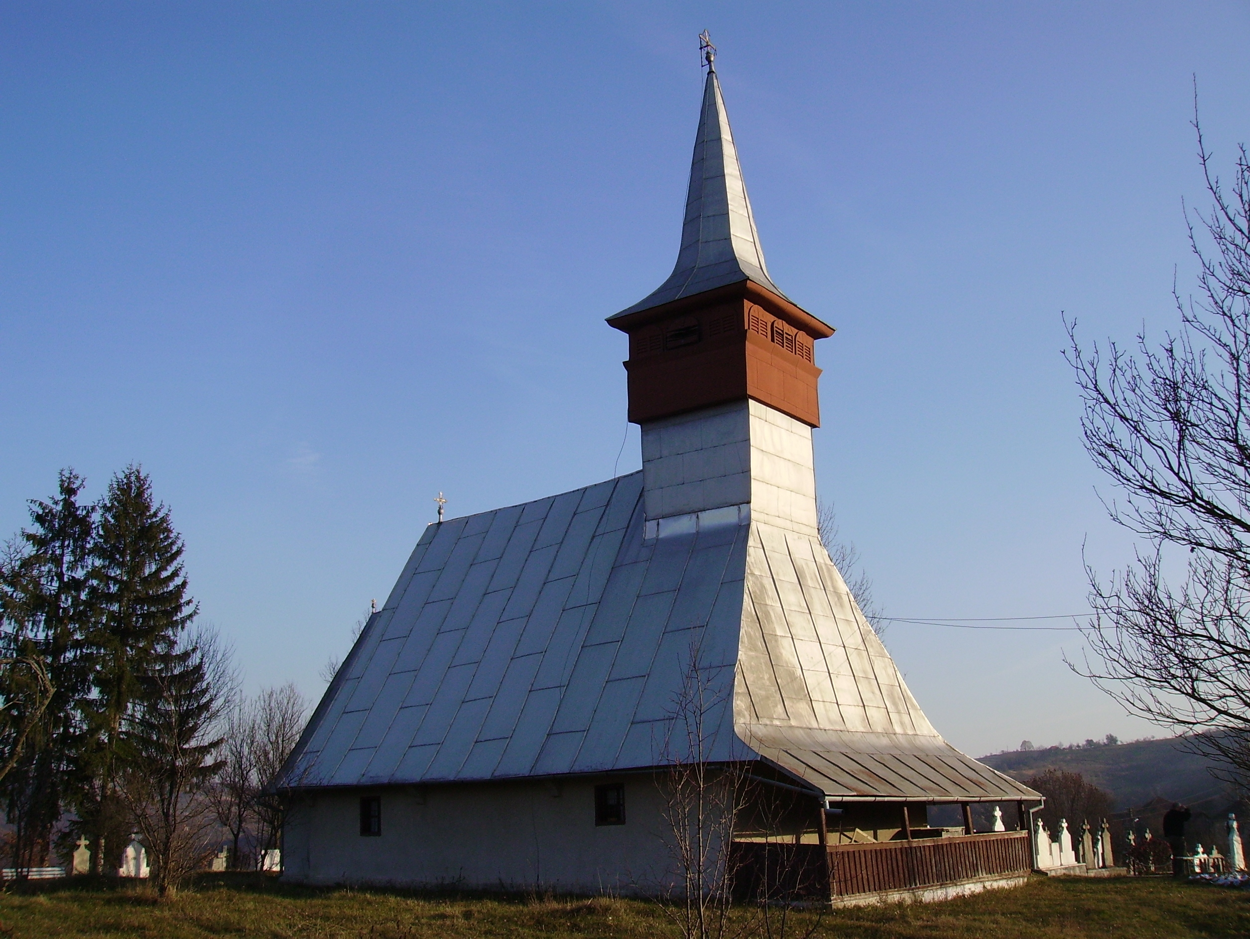 The wooden church in Podele, Hunedoara county, Romania